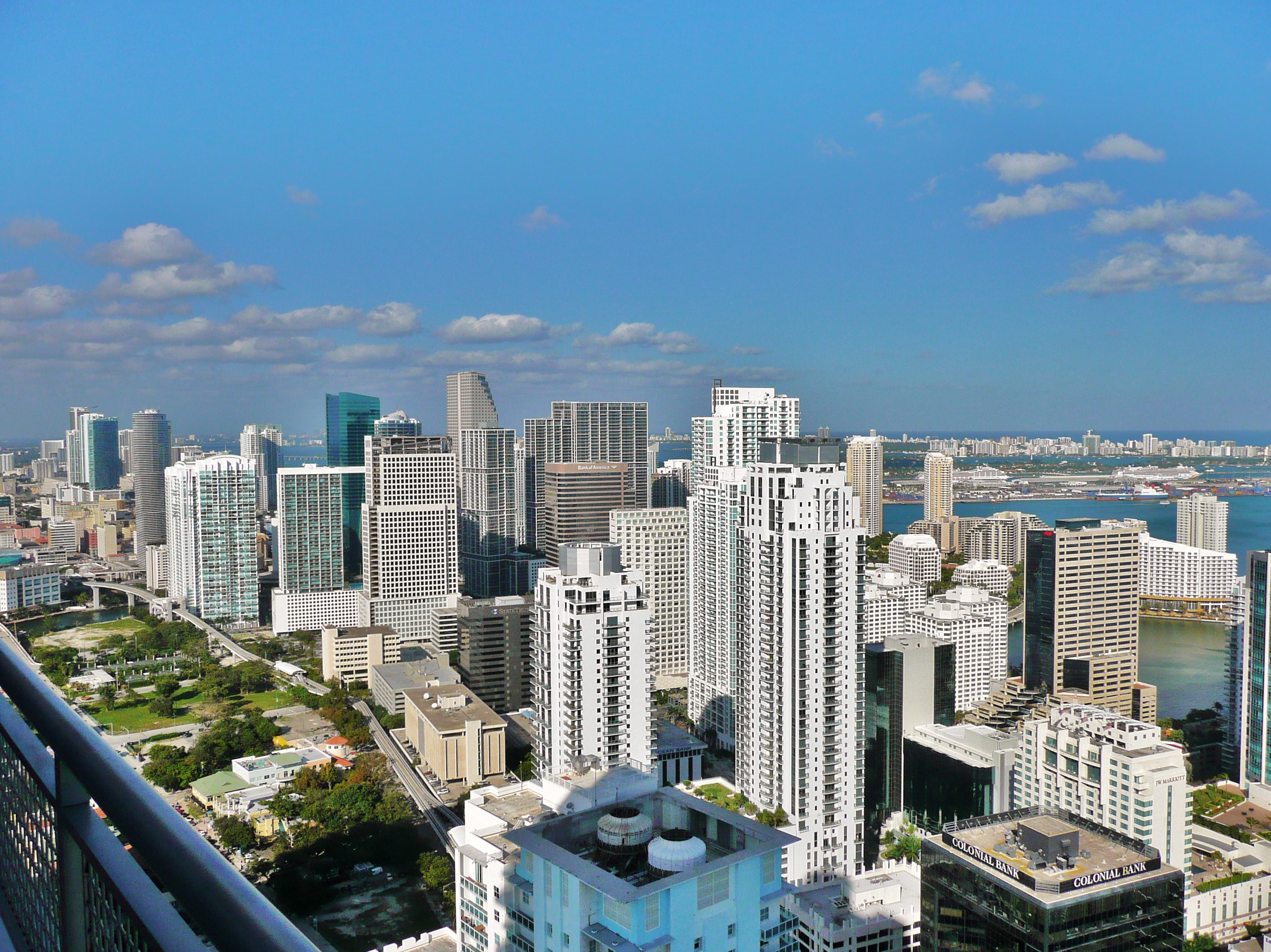 Digital photo taken by Marc Averette. The skyline of northern Brickell in Downtown Miami, Florida, United States.